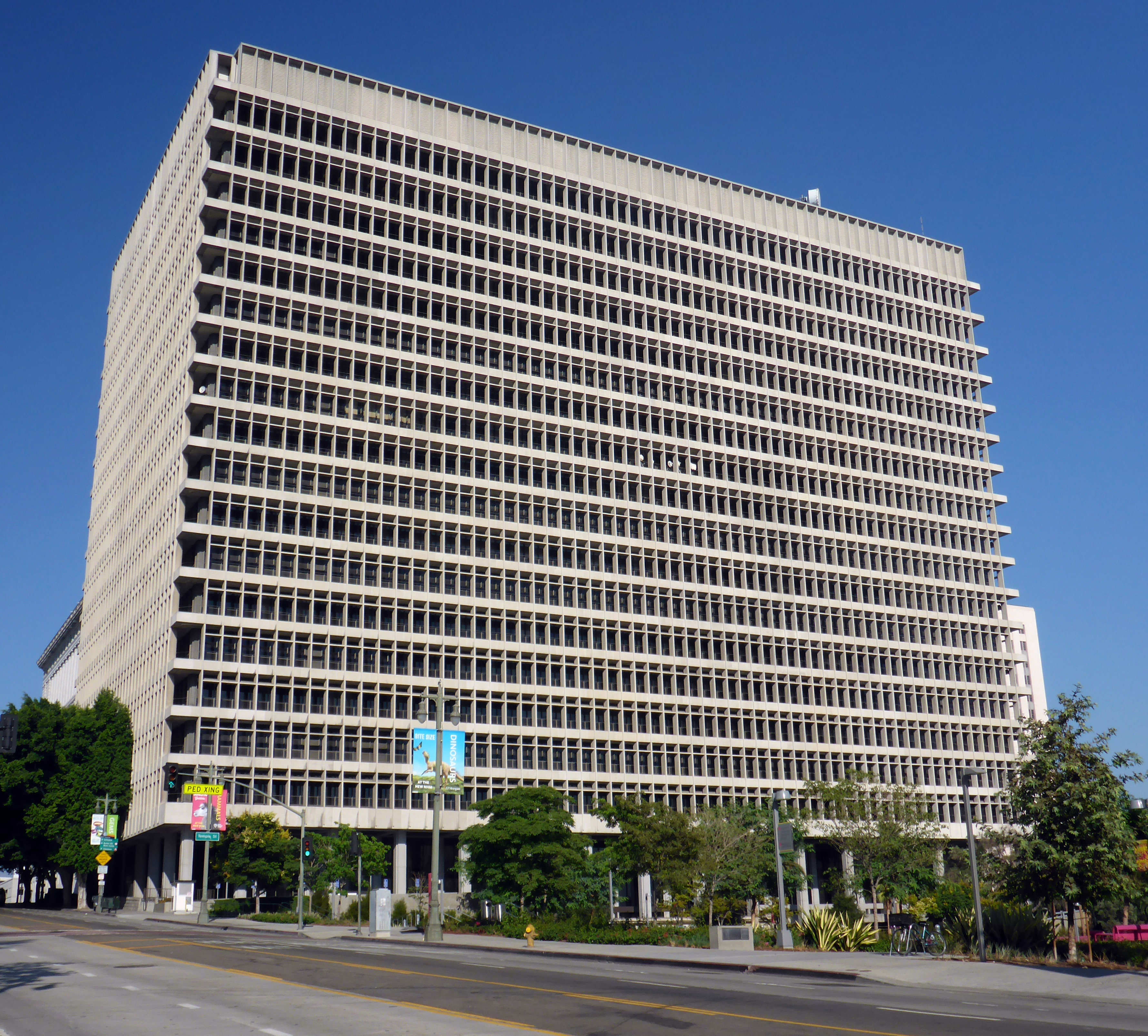 The Clara Shortridge Foltz Criminal Justice Center in downtown Los Angeles, California. Photographed by user Coolcaesar on October 11, 2014.